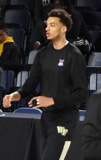 Game # 4 of the 2017 Paradise Jam featured the Wake Forest Demon Deacons and the Drake Bulldogs